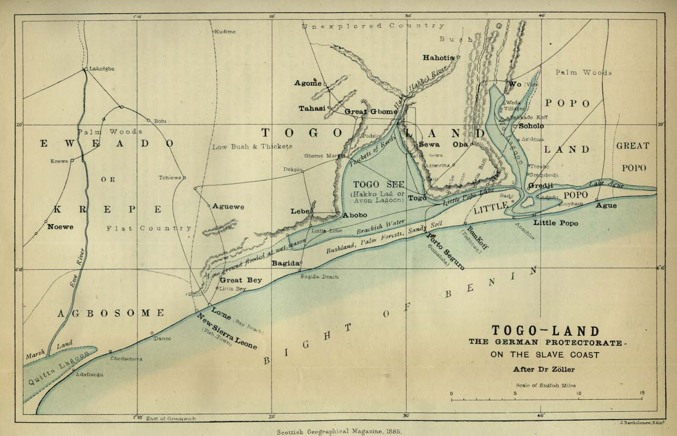 "Togo Land, the German Protectorate on the Slave Coast" from the Scottish Geographical Magazine. Published by the Scottish Geographical Society and edited by Hugh A. Webster and Arthur Silva White. Volume I, 1885.